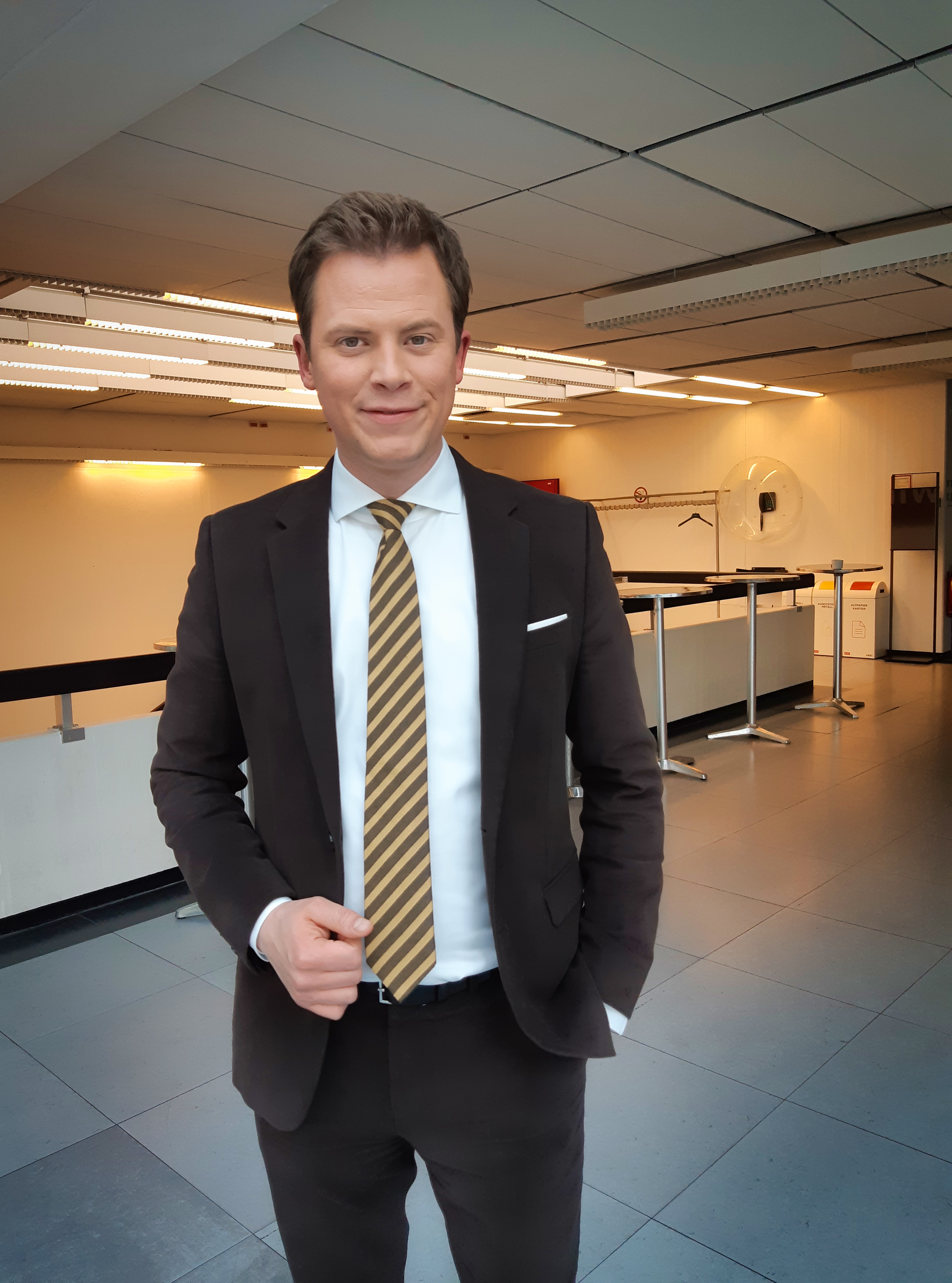 With "Best greetings to Wikimedia Commons for usage in Wikipedia" by Mr. Pötzelsberger